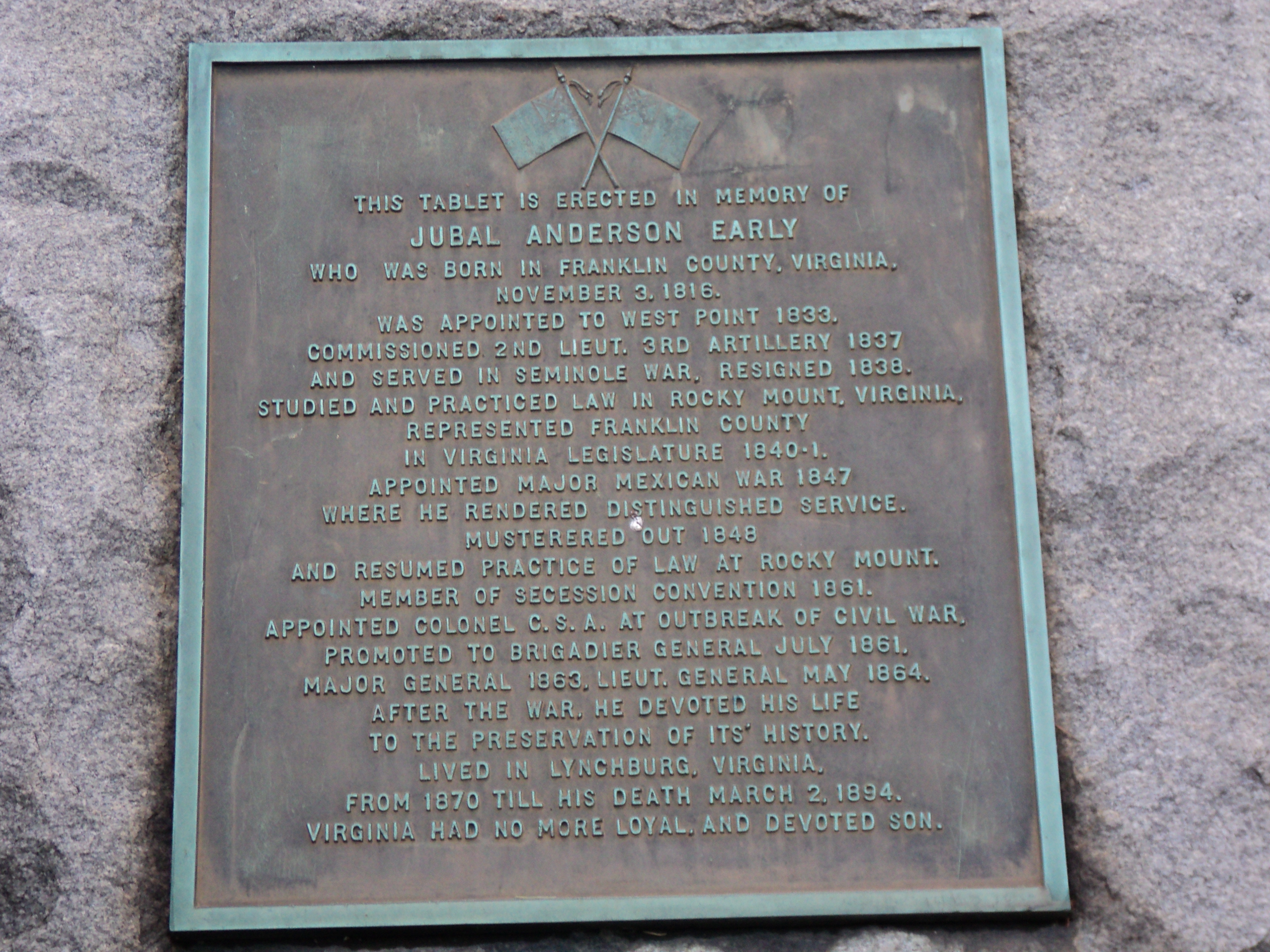 Tablet of memory of Confederate General Jubal Anderson Early, in front of the Franklin County Courthouse, Rocky Mount, Virginia.